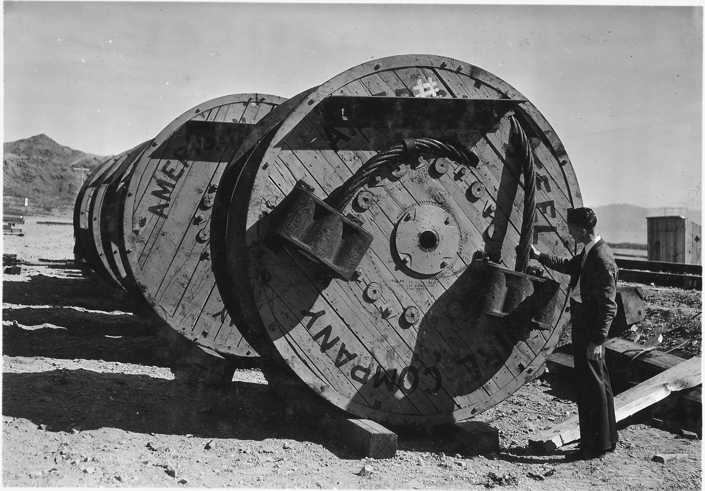 Scope and content: Photograph from Volume Two of a series of photo albums documenting the construction of Hoover Dam, Boulder City, Nevada.